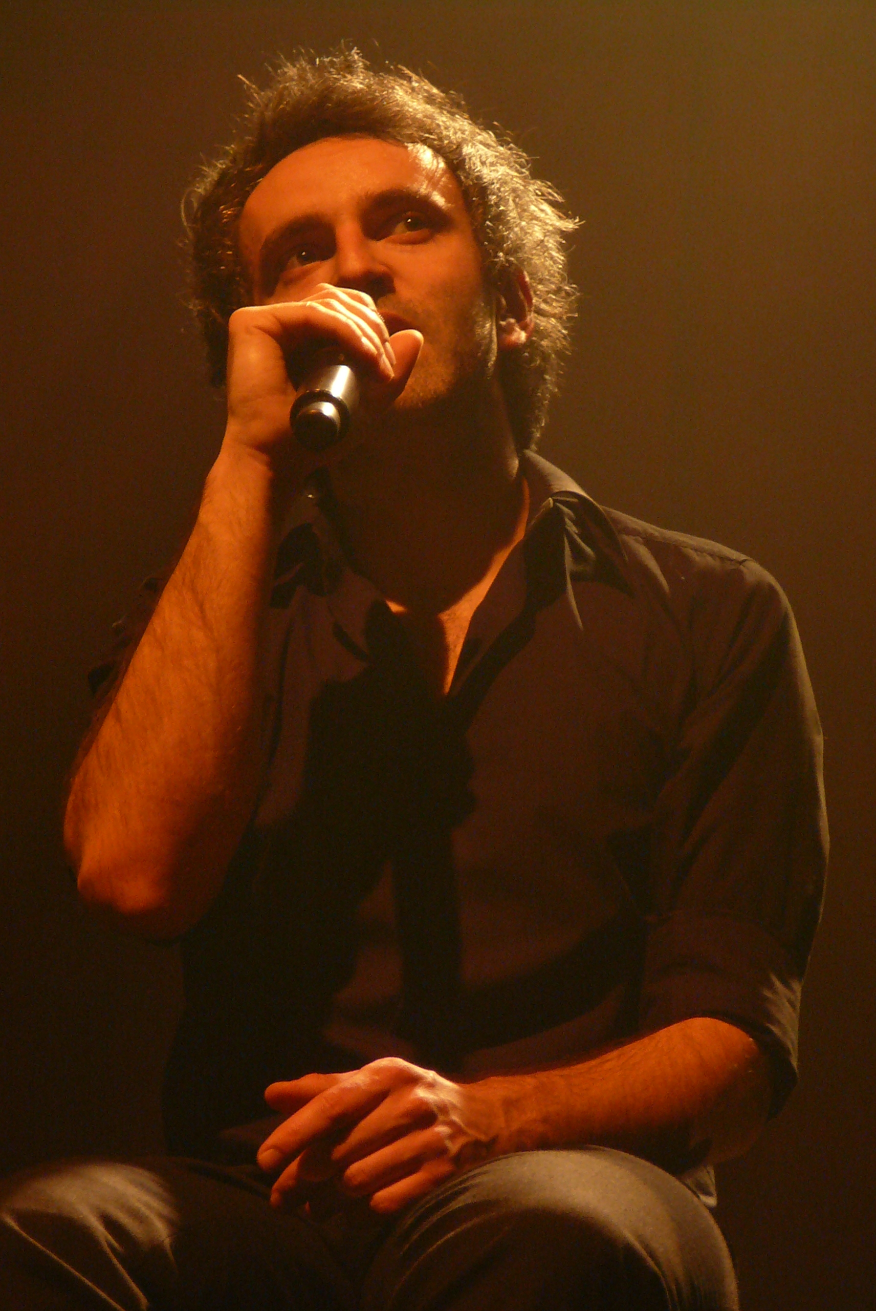 Vincent Delerm in concert in Paris (la Cigale)